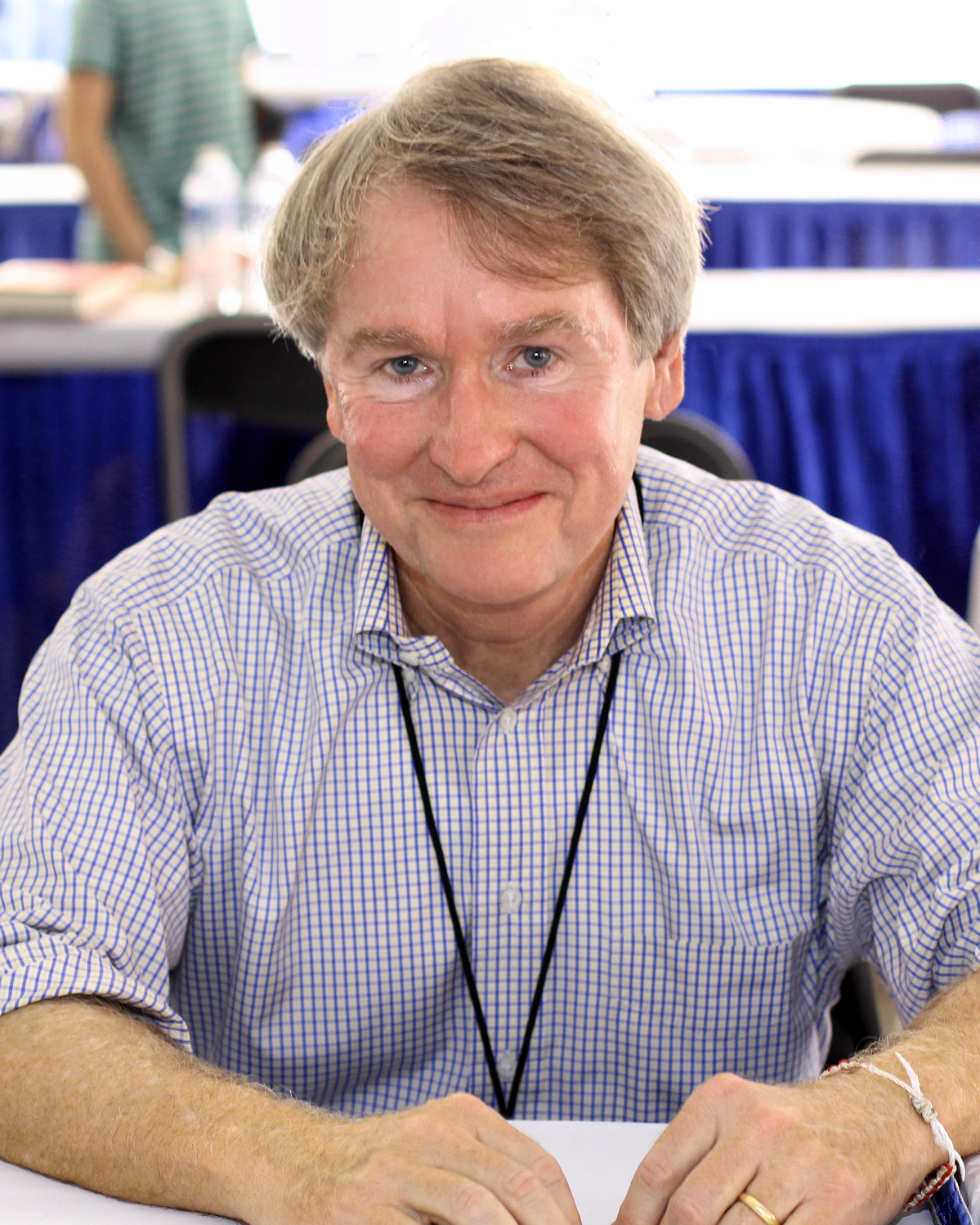 Author Ben Fountain at the 2018 Texas Book Festival in Austin, Texas, United States.